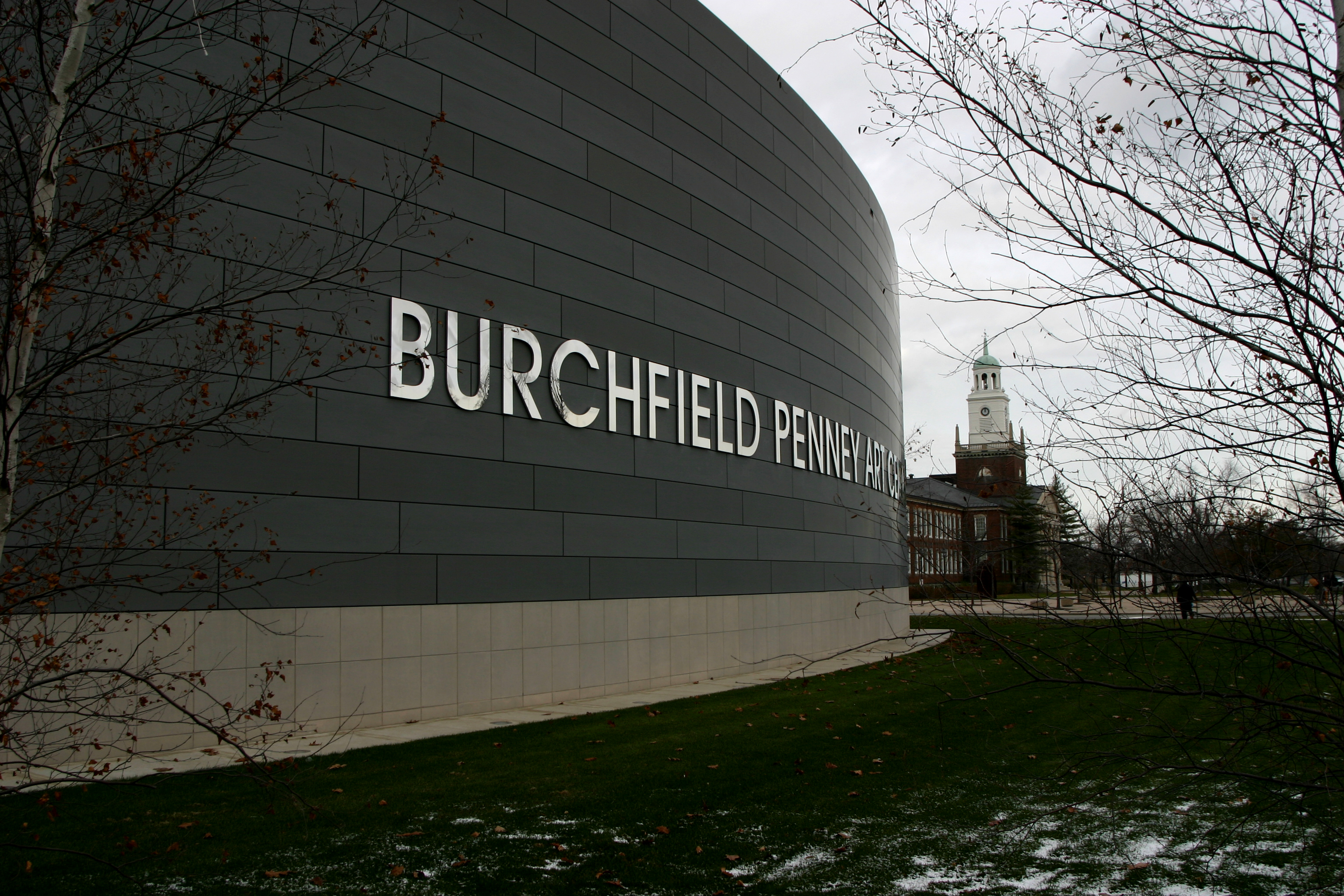 This is a picture of the Burchfield-Penney Art Center that's located on Buffalo State's campus in Buffalo, New York.